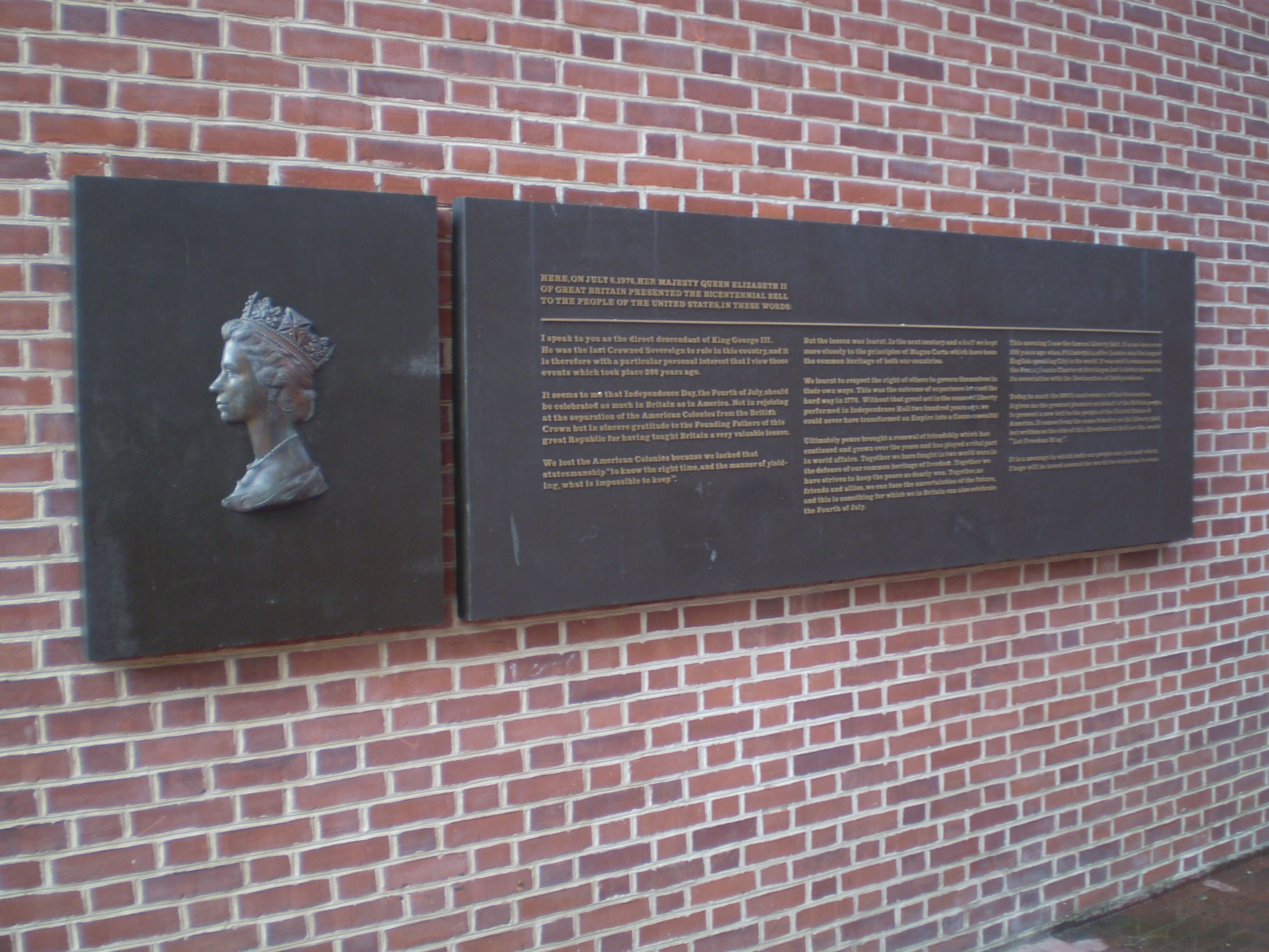 It is a speech made by the Queen Elizabeth II that is on display in front of the Independence Living History Center. The series of photo are taken on the public space.